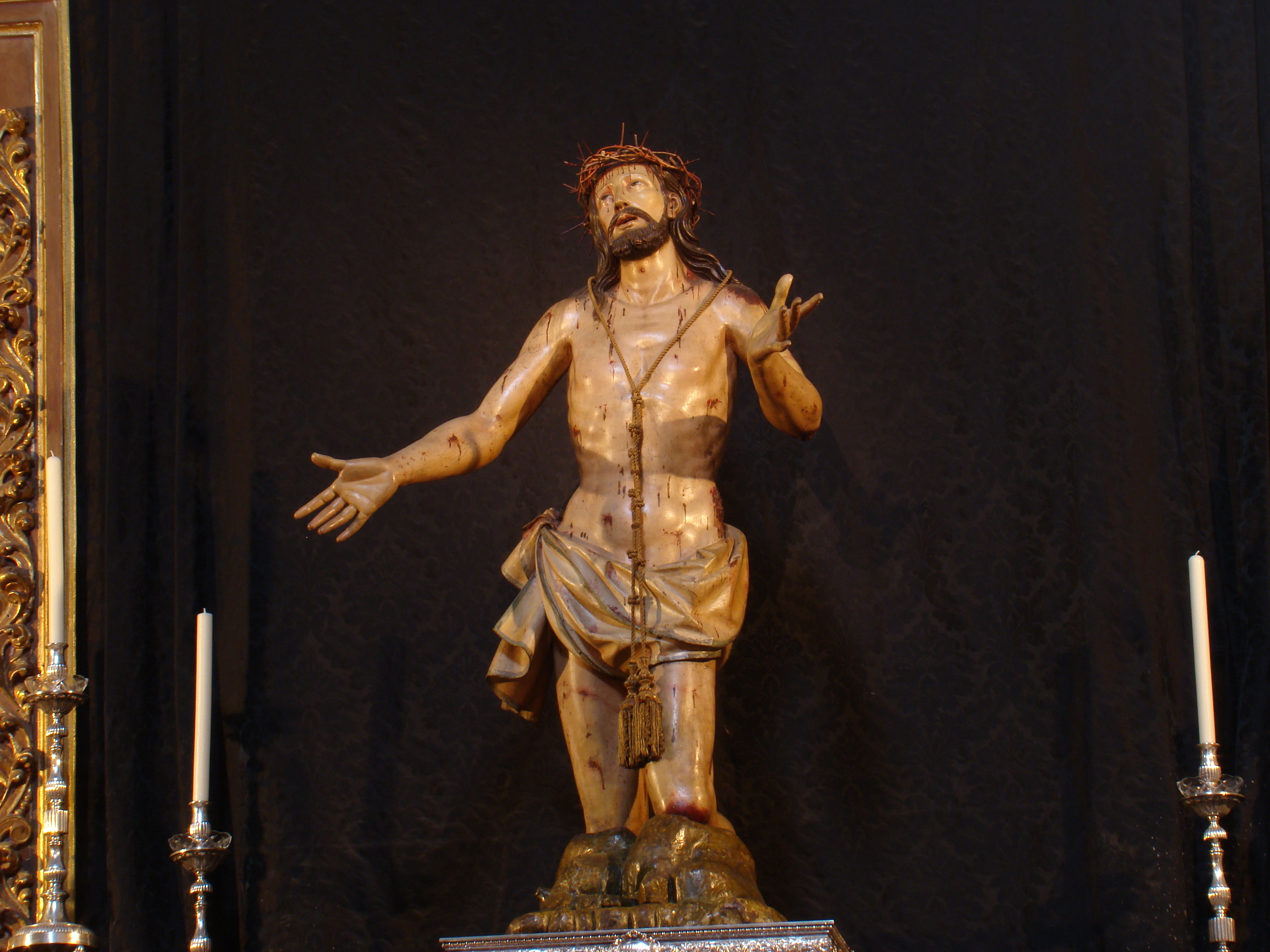 Christ of the Forgiveness belonging to the Brotherhood (Cofradía) of the Passion. It is exhibited in the church of San Quirce, in Valladolid, Spain. Author: Bernardo del Rincón, 1656.